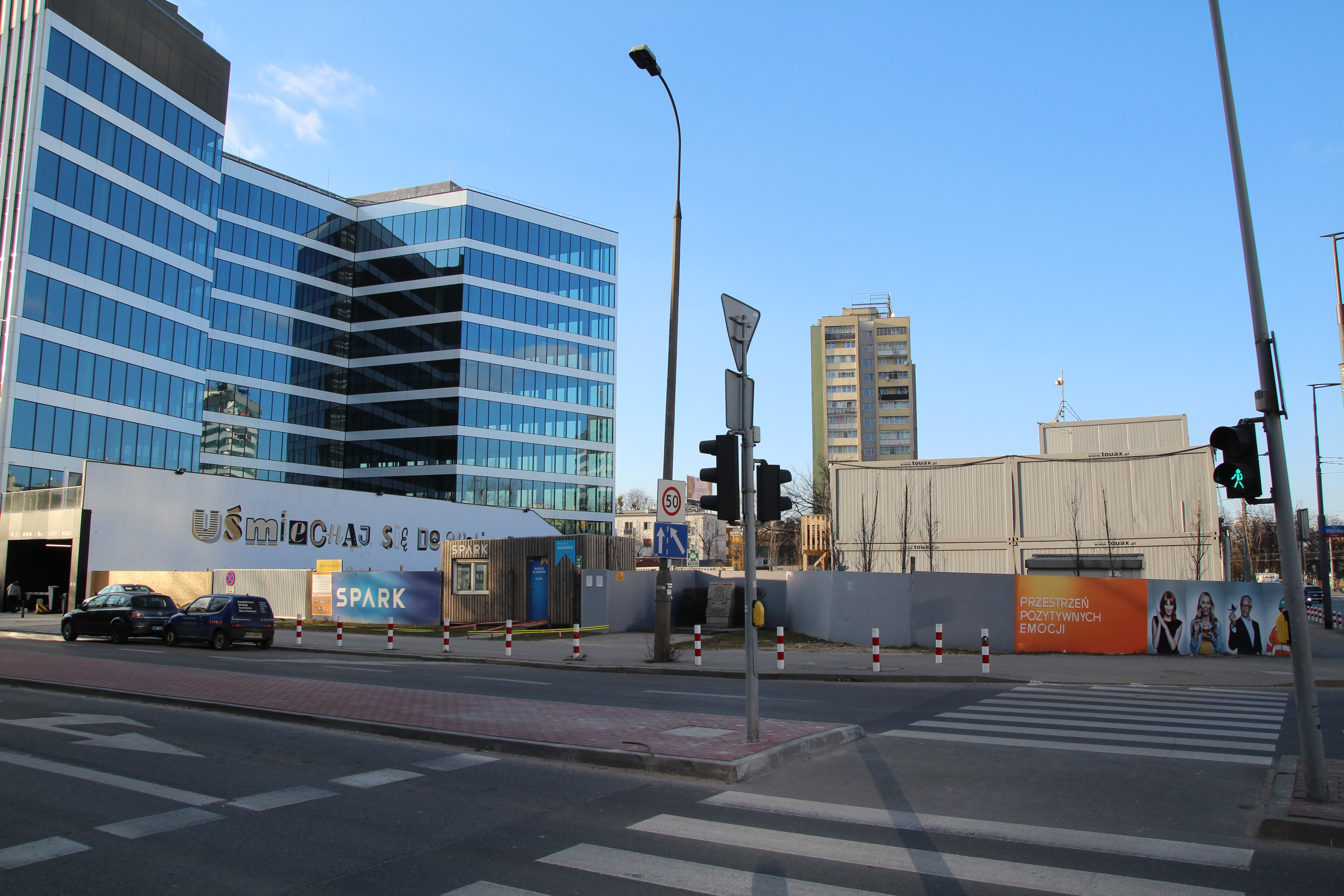 Spark Tower under construction, Warsaw